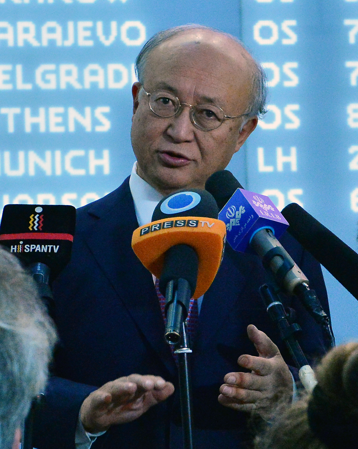 IAEA Director General Yukiya Amano providing a media briefing at the Vienna International Airport (Austria), after his return from his mission to Tehran (Iran), 12 Nov 2013. Right: Mr. Serge Gas, IAEA Director, Division of Public Information. Photo Credit: Dean Calma / IAEA